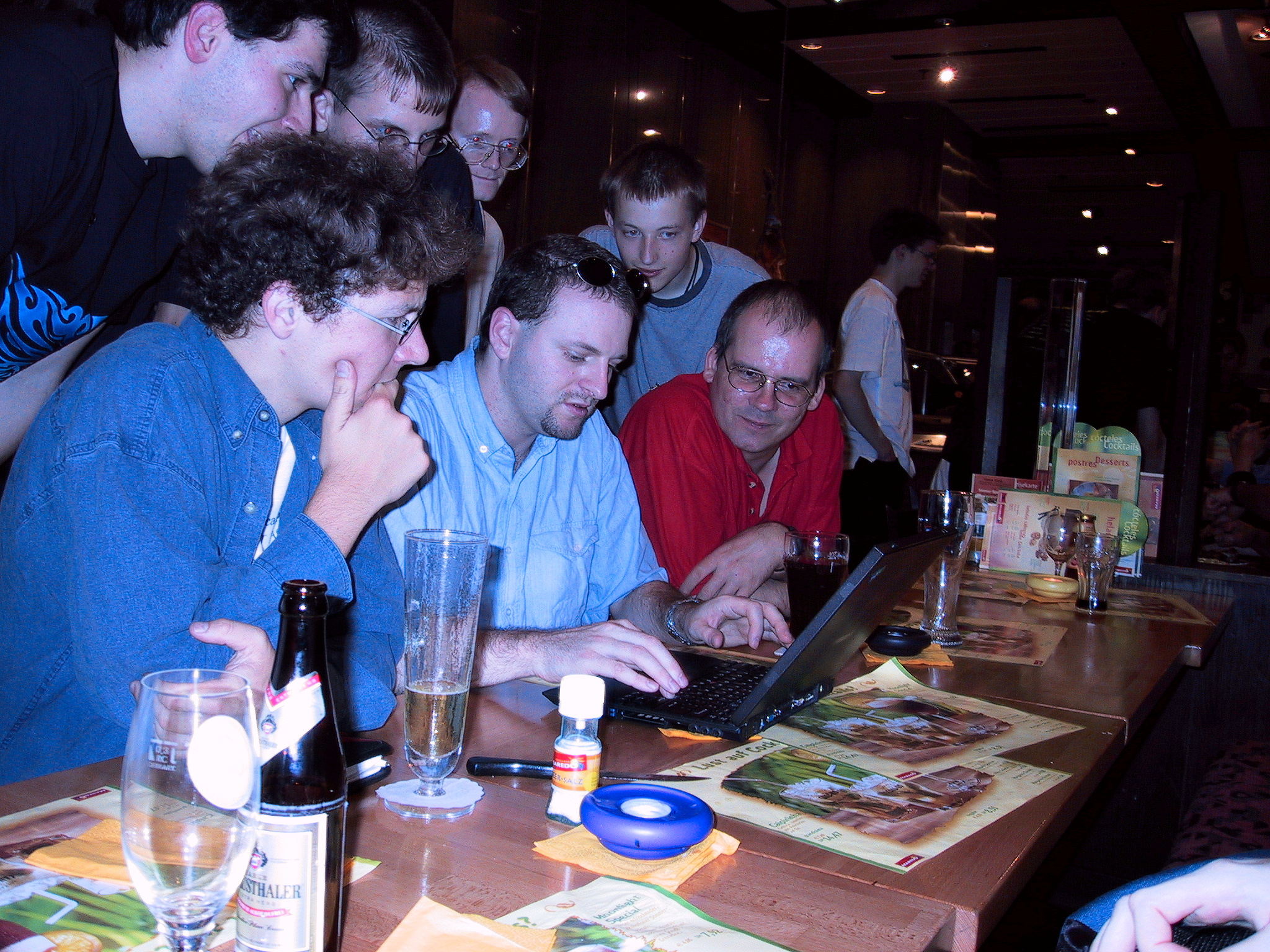 Carsten Haitzler a.k.a. "Rasterman", in light blue shirt (centre), shows something on his laptop during dinner at Linuxtag 2001, Germany